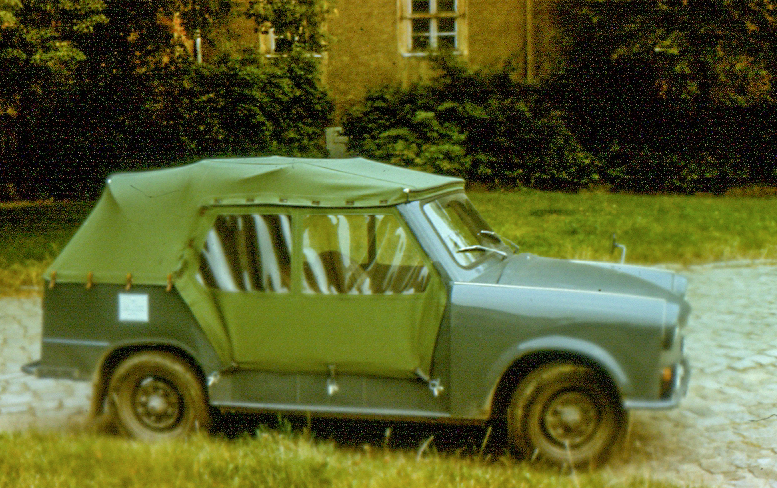 Trabant military version in the GDR